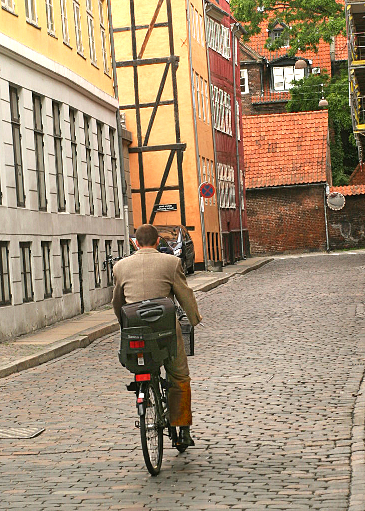 Copenhagen Bike Commuter, Rain or shine, thousands in the urban population of Copenhagen, Denmark bike to work. I snapped this one while wandering around the town one afternoon. Location: Copenhagen.